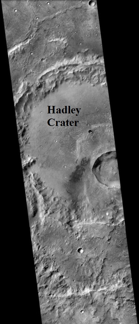 Hadley Crater, as seen by ctx